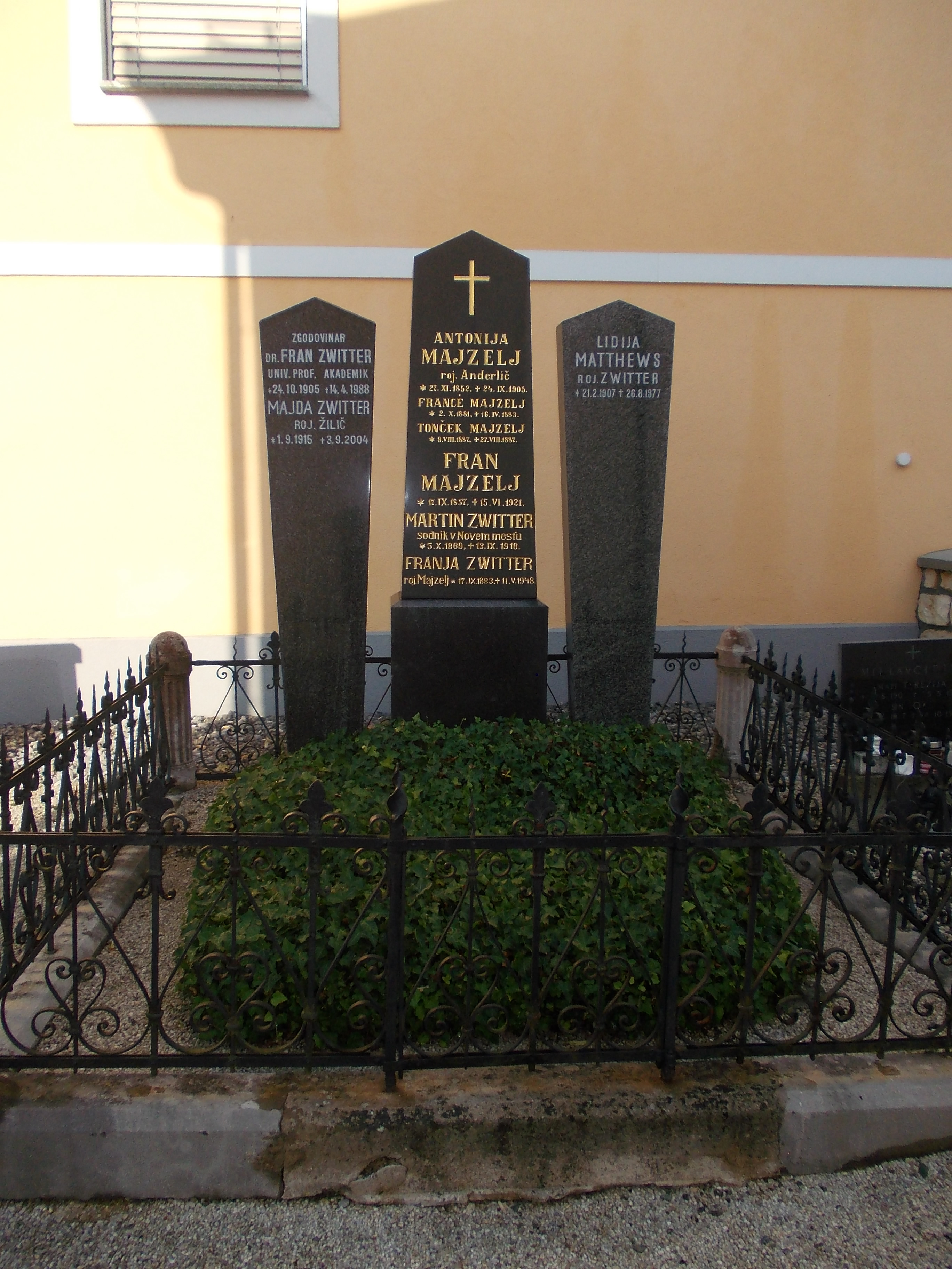 St. Andrew's Parish Church (Bela Cerkev)